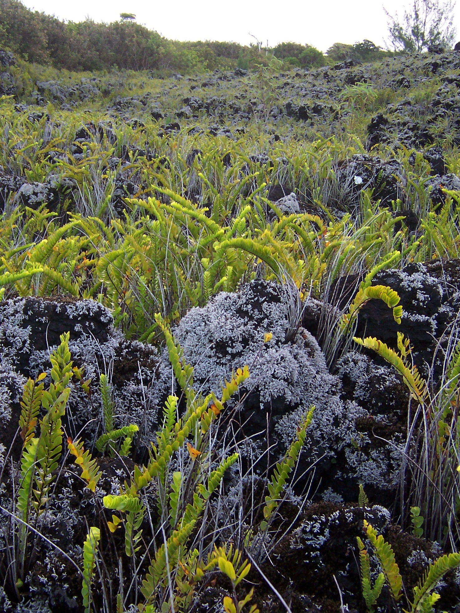 New vegetation growing on a aa lava flow 21 years old (1986) of the Piton de la Fournaise (Réunion Island).